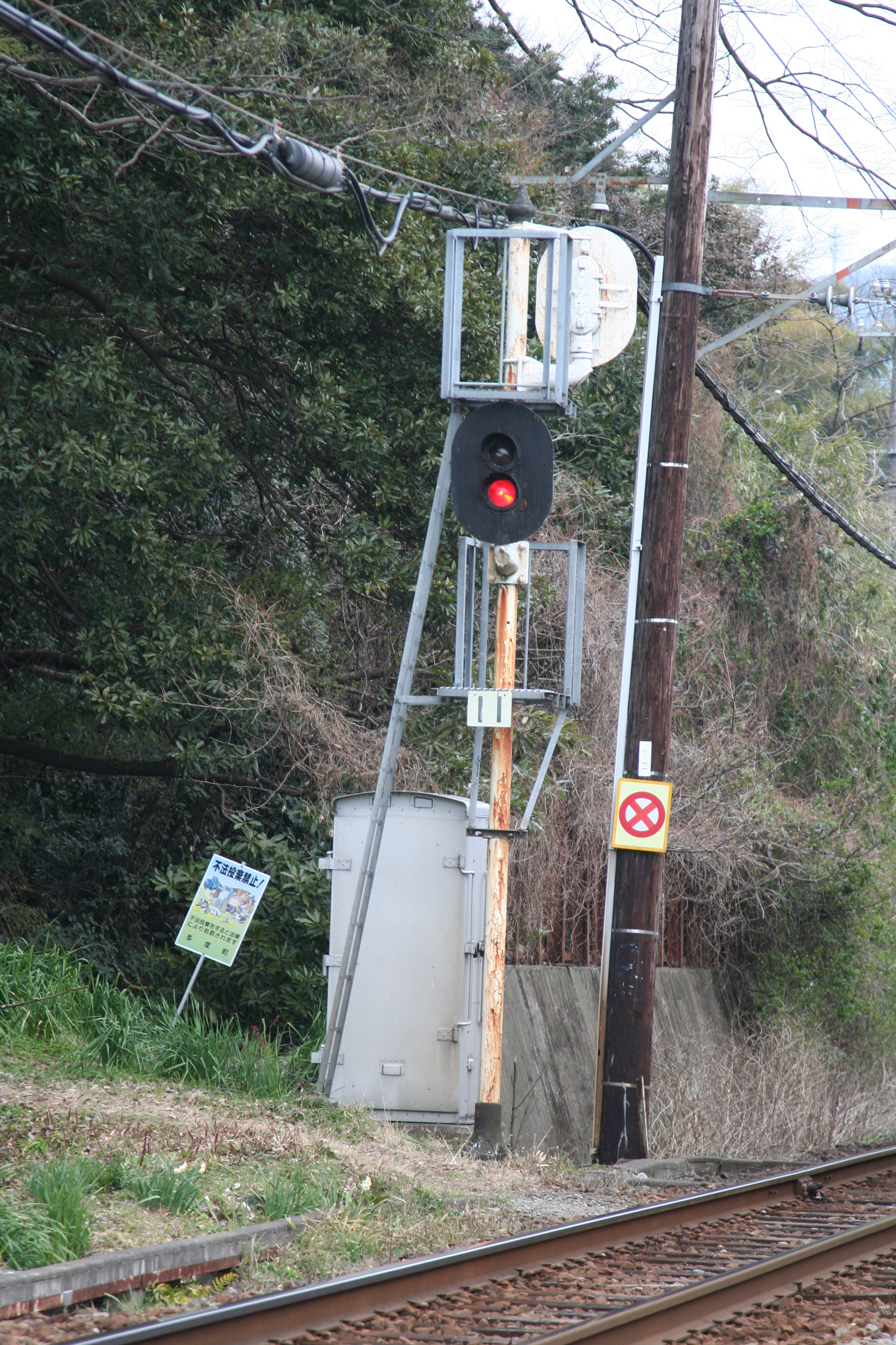 two-aspect block signal between Shimofukaya station and Shimonoshiro station of Yoro Railway Yoro line